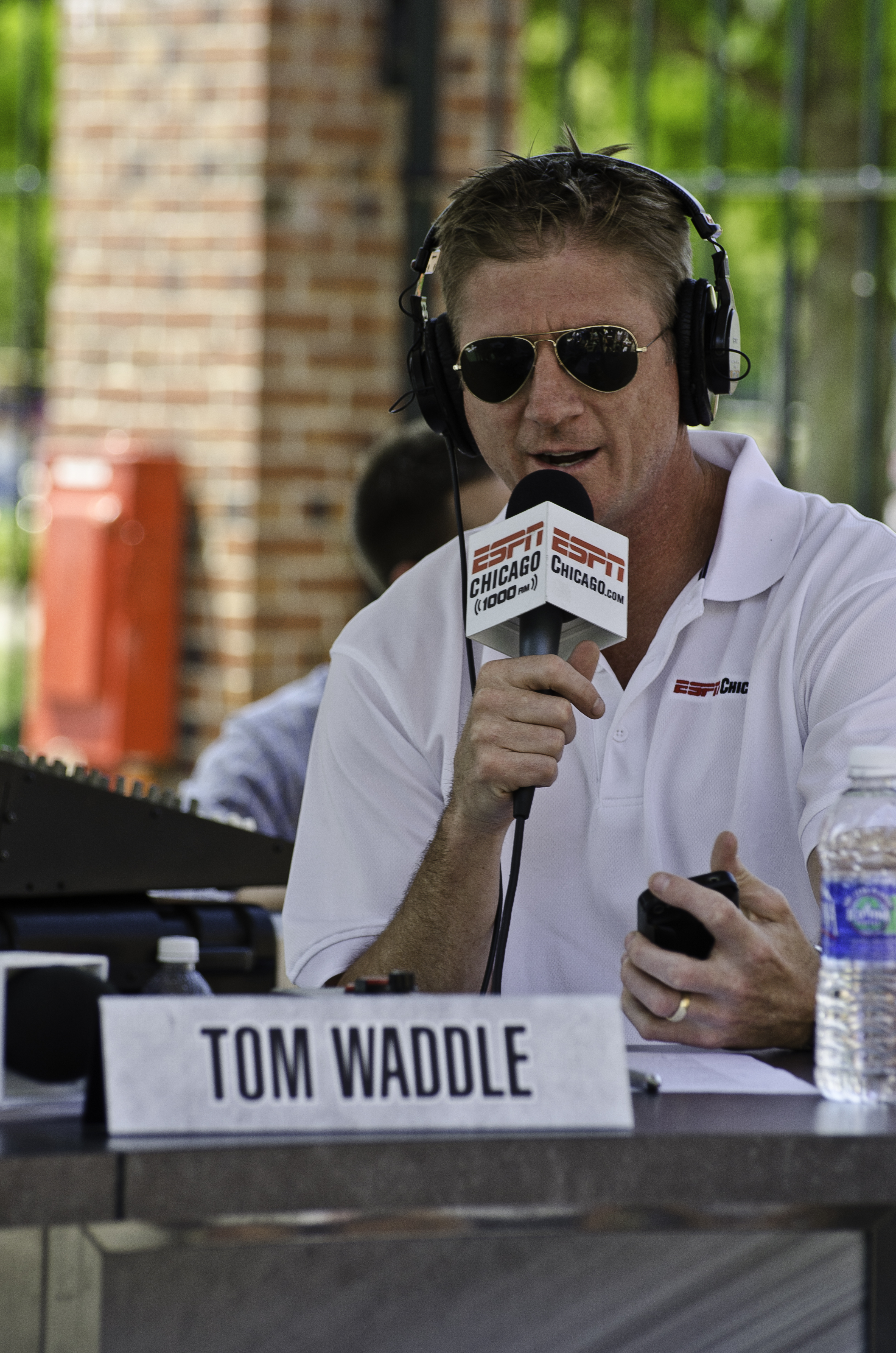 Tom Waddle at Navy Pier introducing Jay Cutler as weekly in-house guest